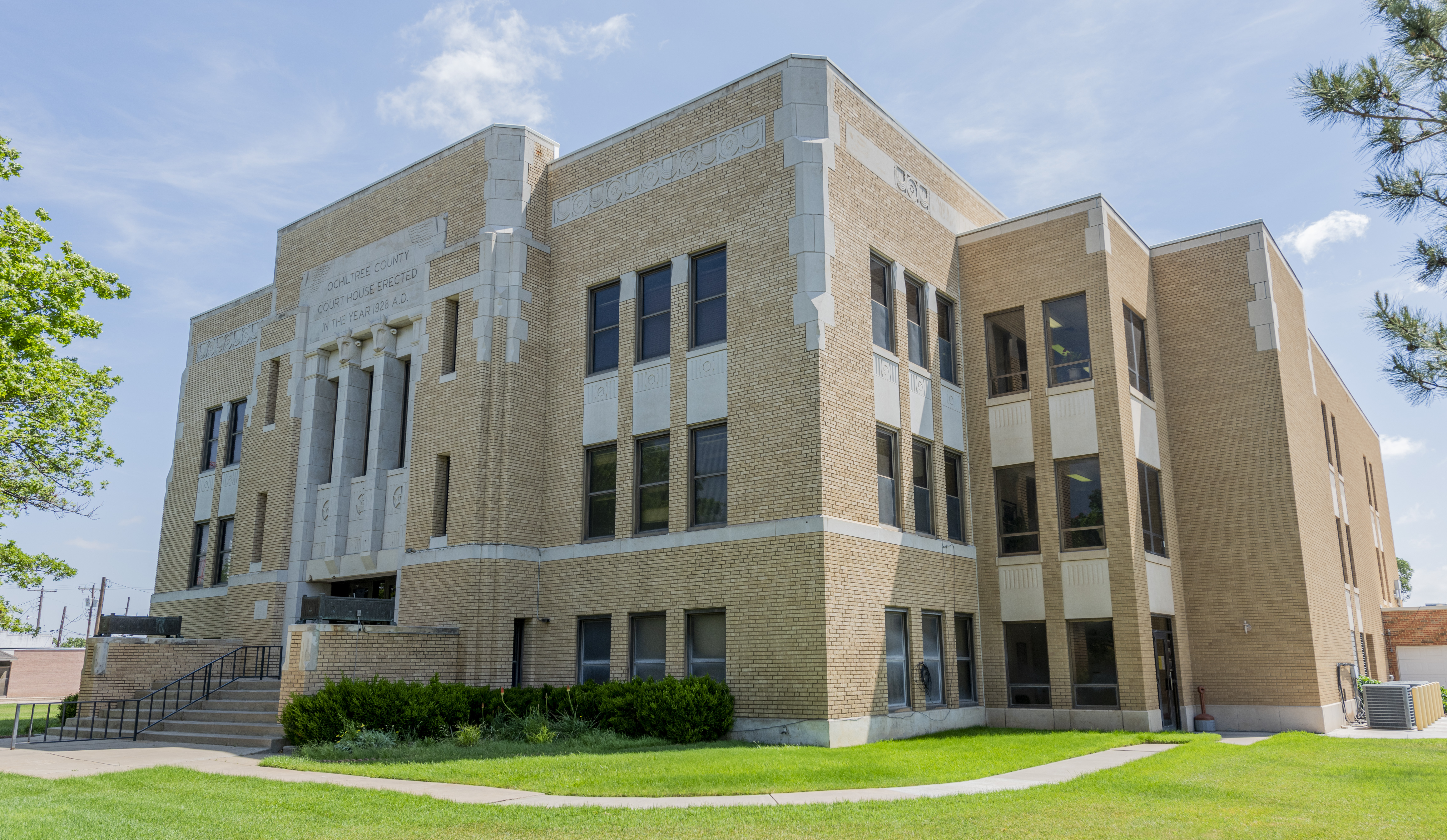 Image of the Ochiltree County, Texas courthouse located in Perryton, Texas. Taken in May 2020.